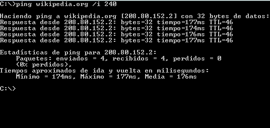 ping command